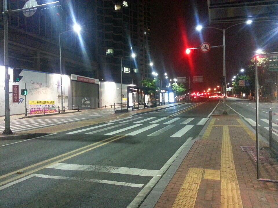 Bus stop 'North end of hangangdaegyo (bridge)'